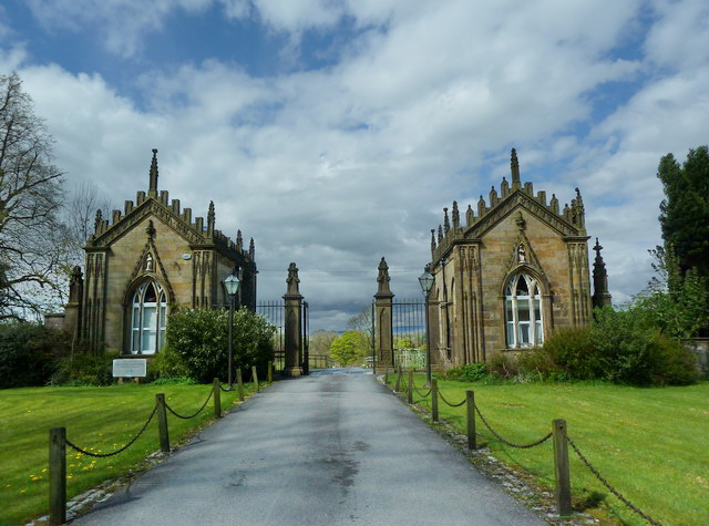 Photograph of the lodges at the main entrance to Gisburne Park, Gisburn, Lancashire